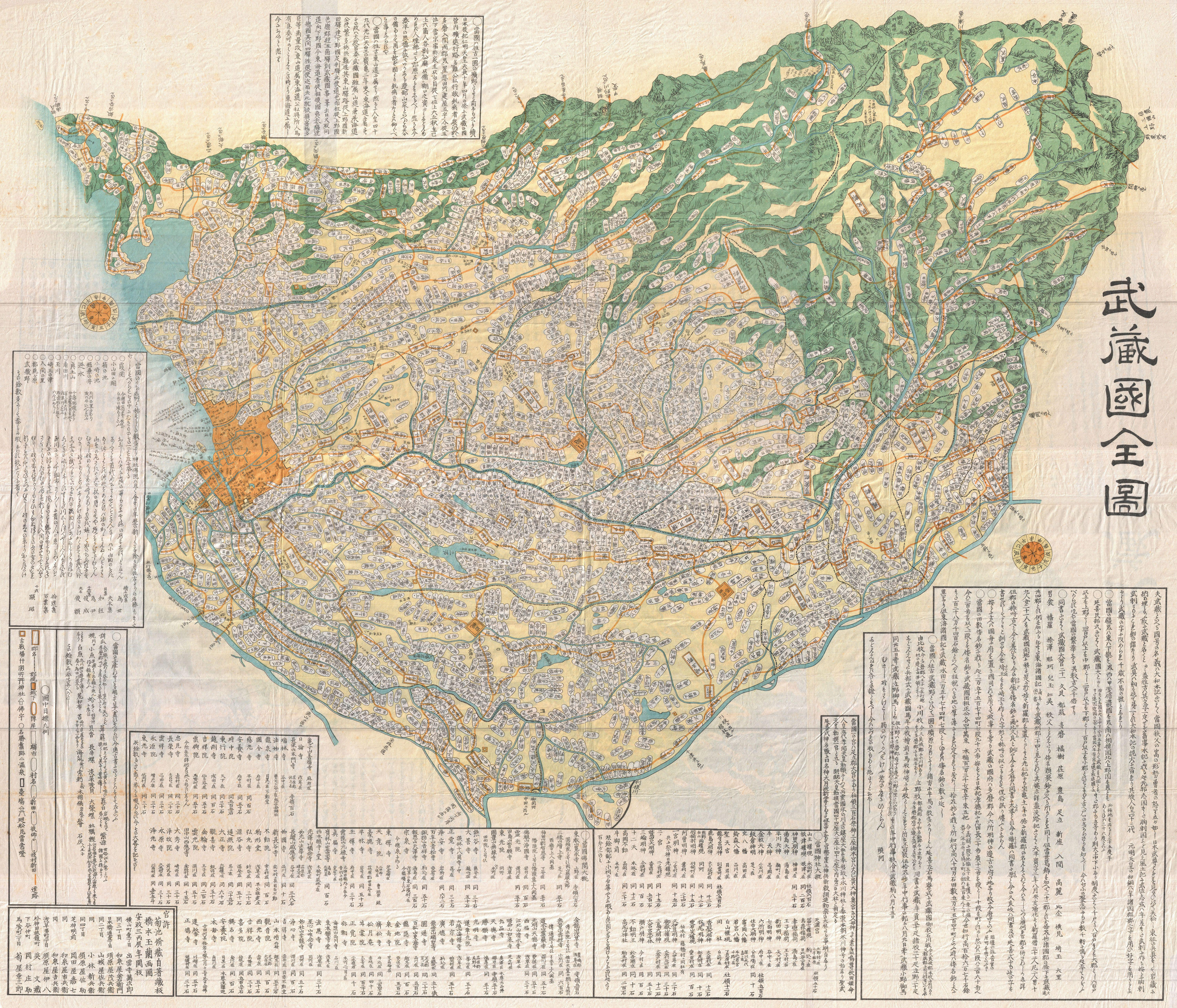 A large-format Edo Period Japanese woodblock map of Musashi Province dating to 1858. Musashi (武蔵国, Musashi no kuni) was a province of Japan, which today comprises Tokyo Prefecture, most of Saitama Prefecture and part of Kanagawa Prefecture, mainly Kawasaki and Yokohama. Musashi bordered on Kai, Kozuke, Sagami, Shimosa, and Shimotsuke Provinces. Musashi was the largest province in the Kanto region. It had its ancient capital in modern Fuchu, Tokyo and its provincial temple in what is now Kokubunji, Tokyo. By the Sengoku period, the main city was Edo, which became the dominant city of eastern Japan. Edo Castle was the headquarters of Tokugawa Ieyasu before the Battle of Sekigahara and became the dominant city of Japan during the Edo period, being renamed Tokyo during the Meiji Restoration. Printed in the traditional Japanese style popular during the Edo Period, with topograpy shown in profile, no firm directional orientation, and map titles in cartouches.